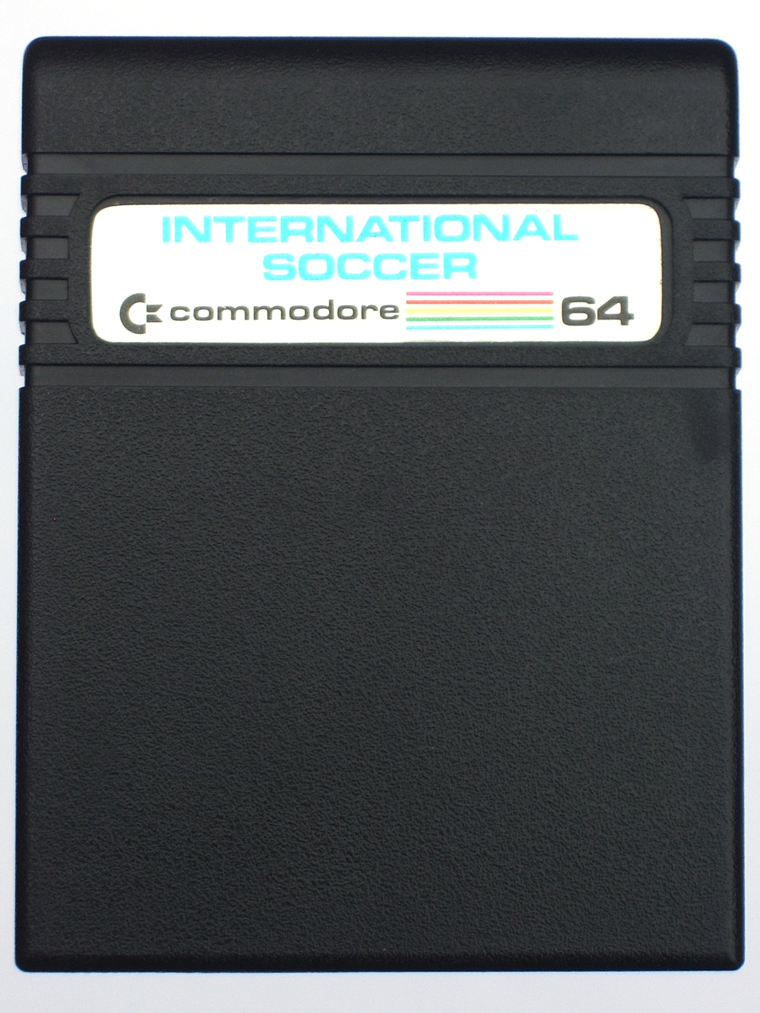 Commodore 64 game cartridge - International Soccer.